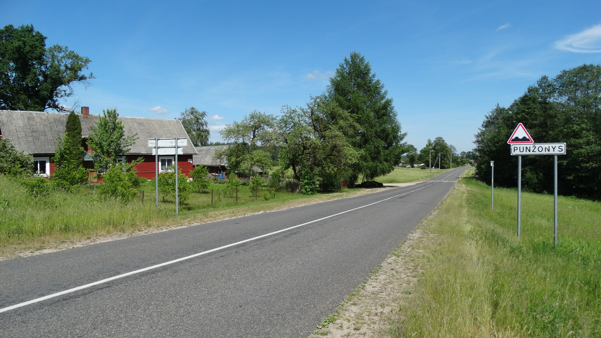 Punžonys, Vilnius District, Lithuania